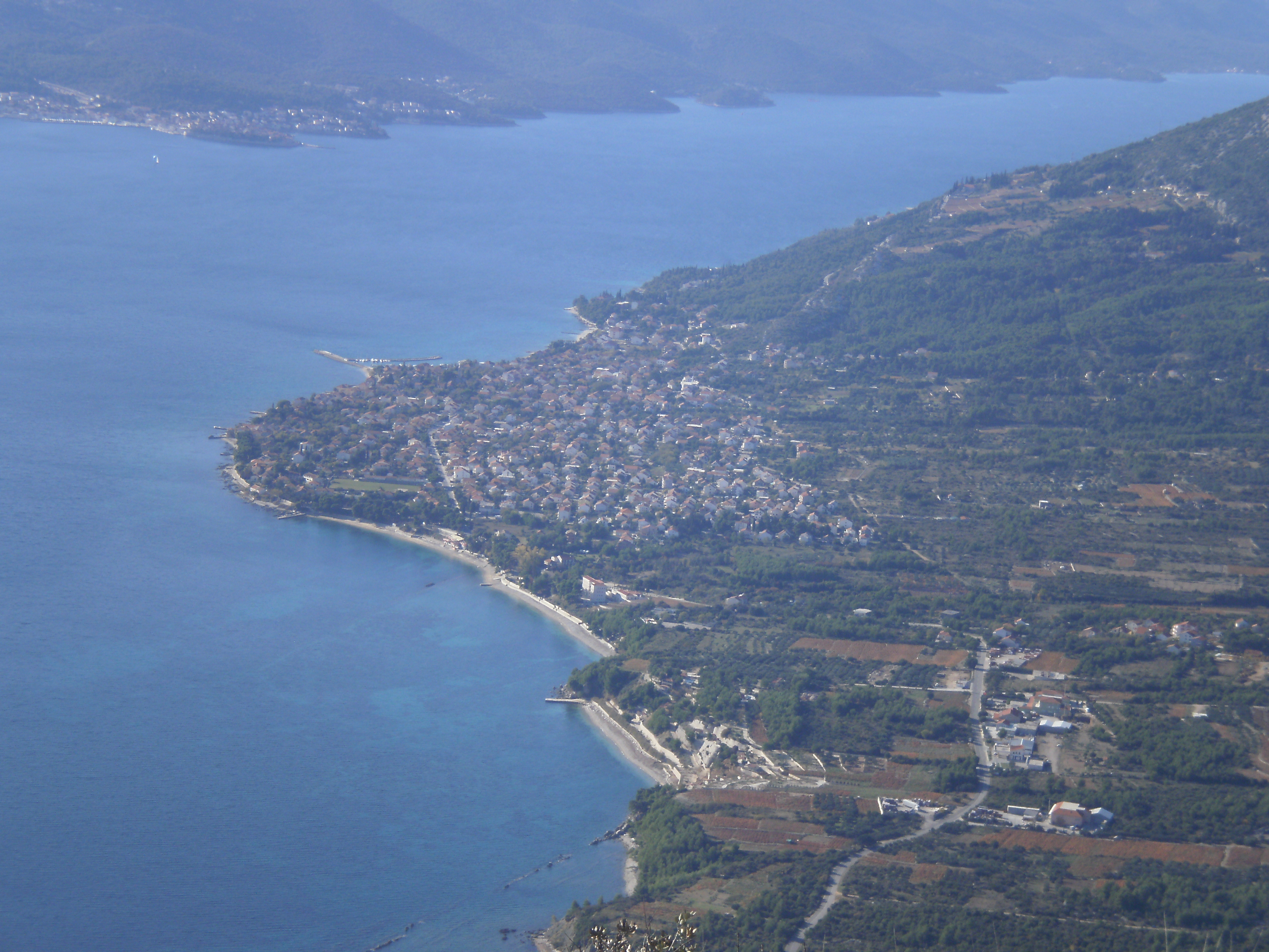 Panorama photo of Orebić from east OLYMPUS DIGITAL CAMERA